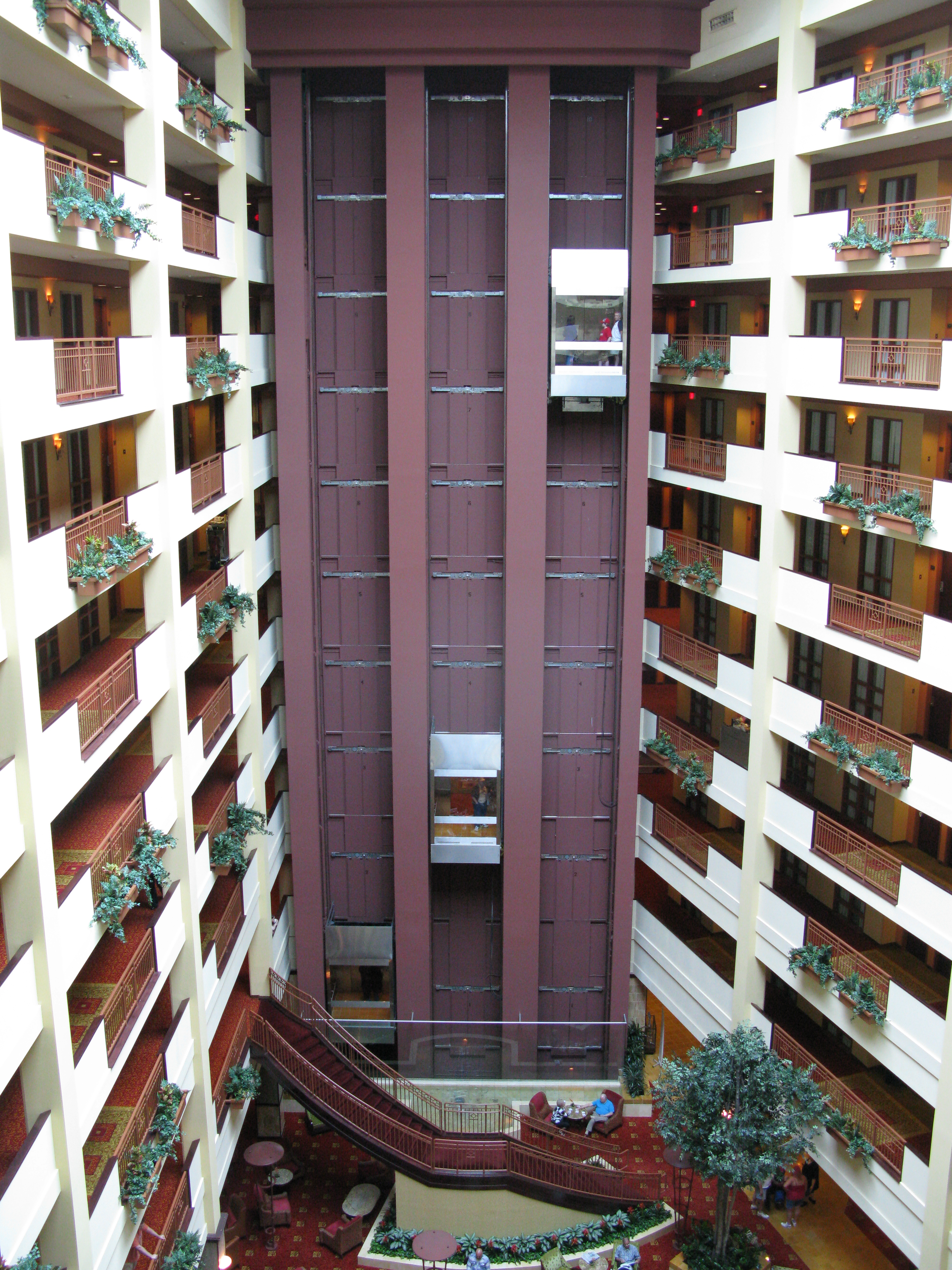 Hotel elevators. Huntsville AL